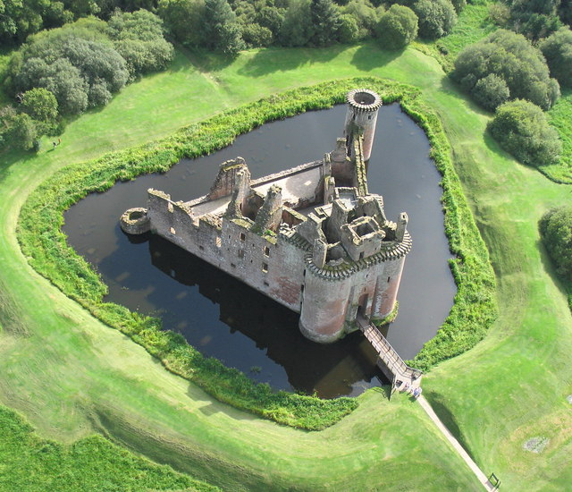 Aerial view of Caerlaverock Castle.